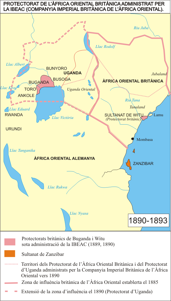 Map of British East Africa 1890-1893